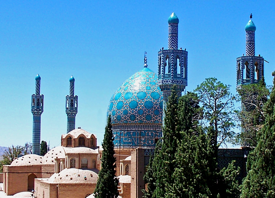 Tiled minarets at the Shrine of Shah Nematollah Vali — in Mahan, Kerman province, southern Iran.